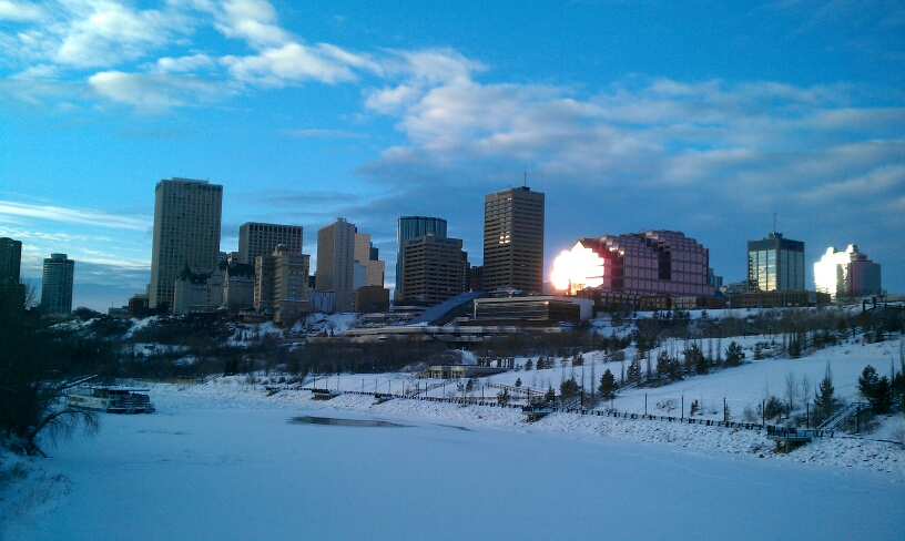 Downtown Edmonton, January 2013